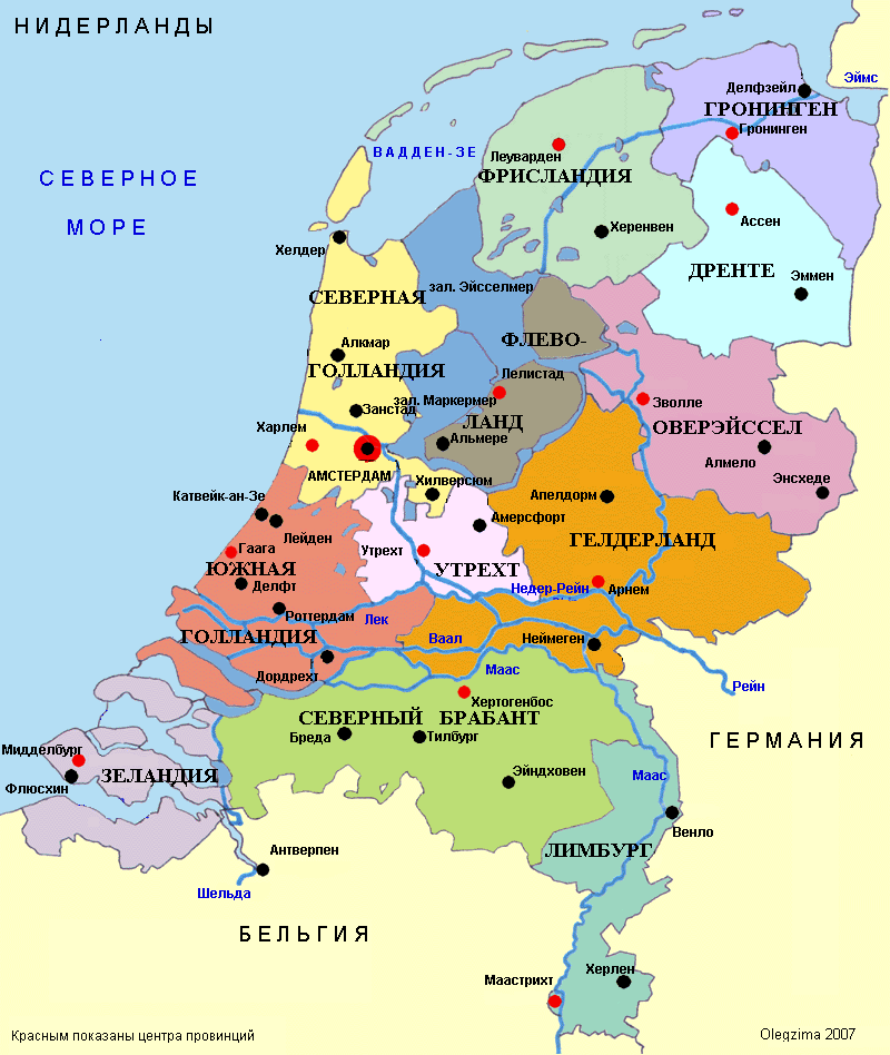 map of Netherlands